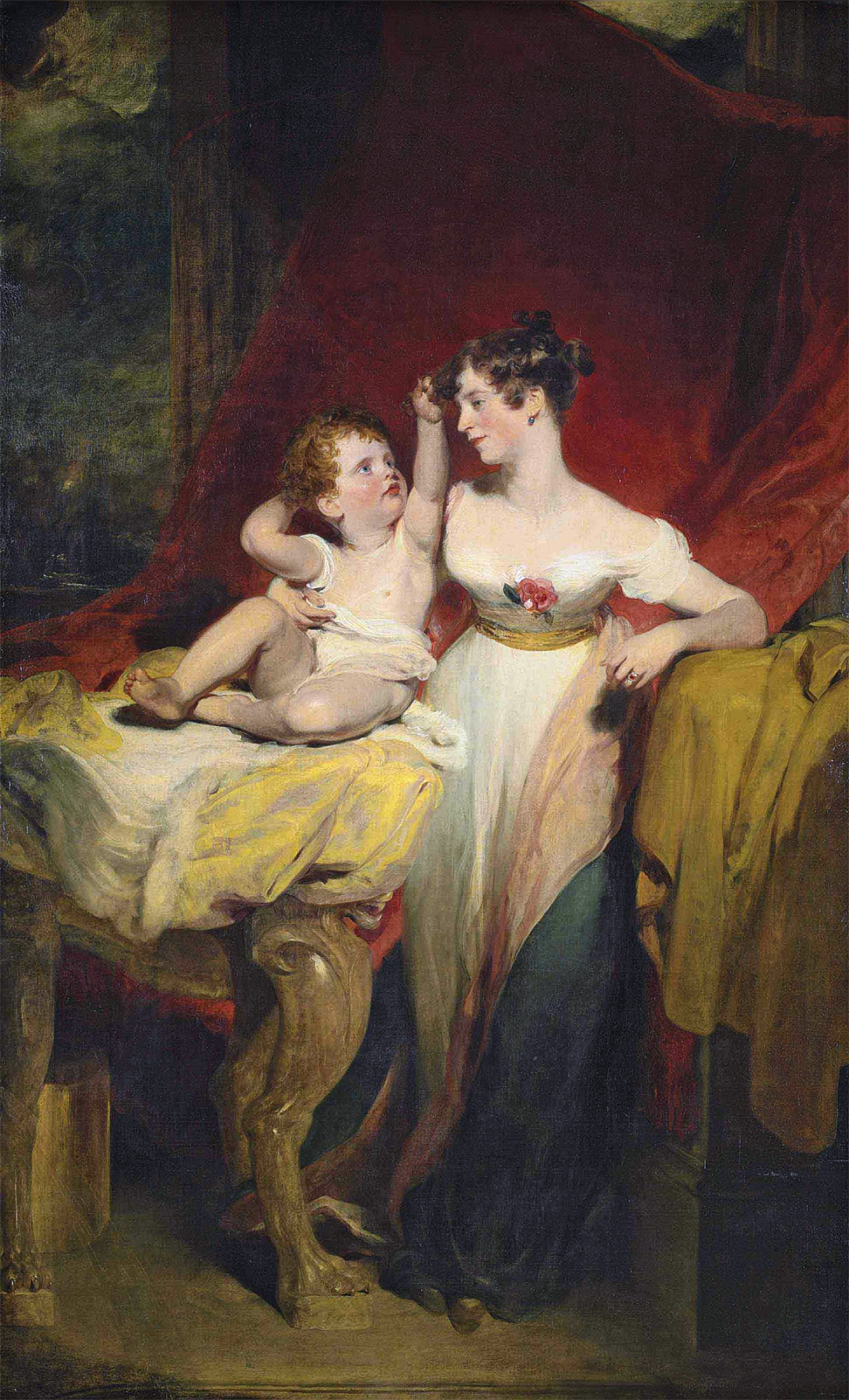 Anne, Viscountess Pollington, later Countess of Mexborough (d 1870), with her son, John Charles (1810-99), later 4th Earl of Mexborough